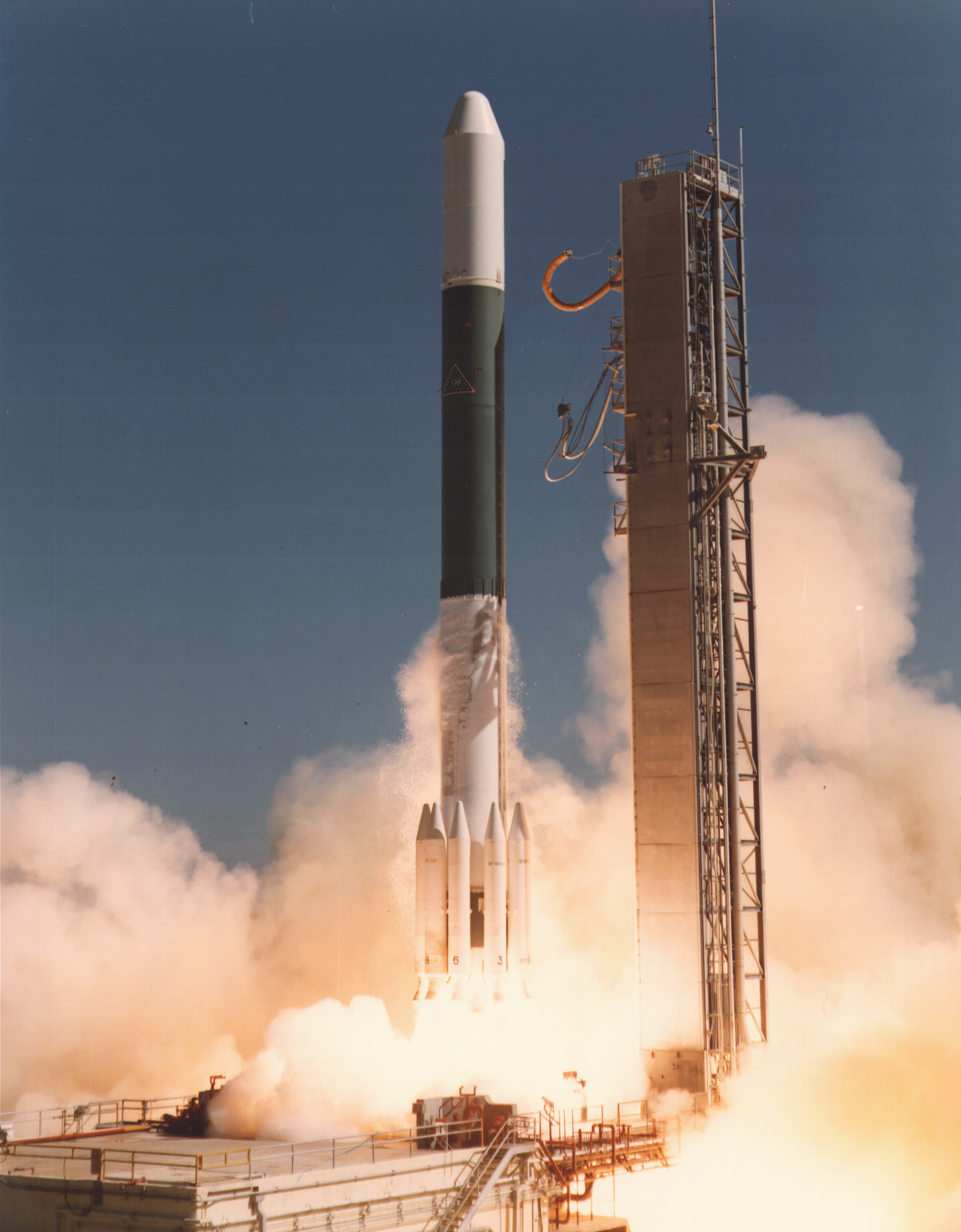 Delta 2914 launching IUE spacecraft on Jan. 26, 1978 from Cape Canaveral original description: Liftoff IUE spacecraft aboard Delta 138 from Complex 17 at 12:36 p.m. EST